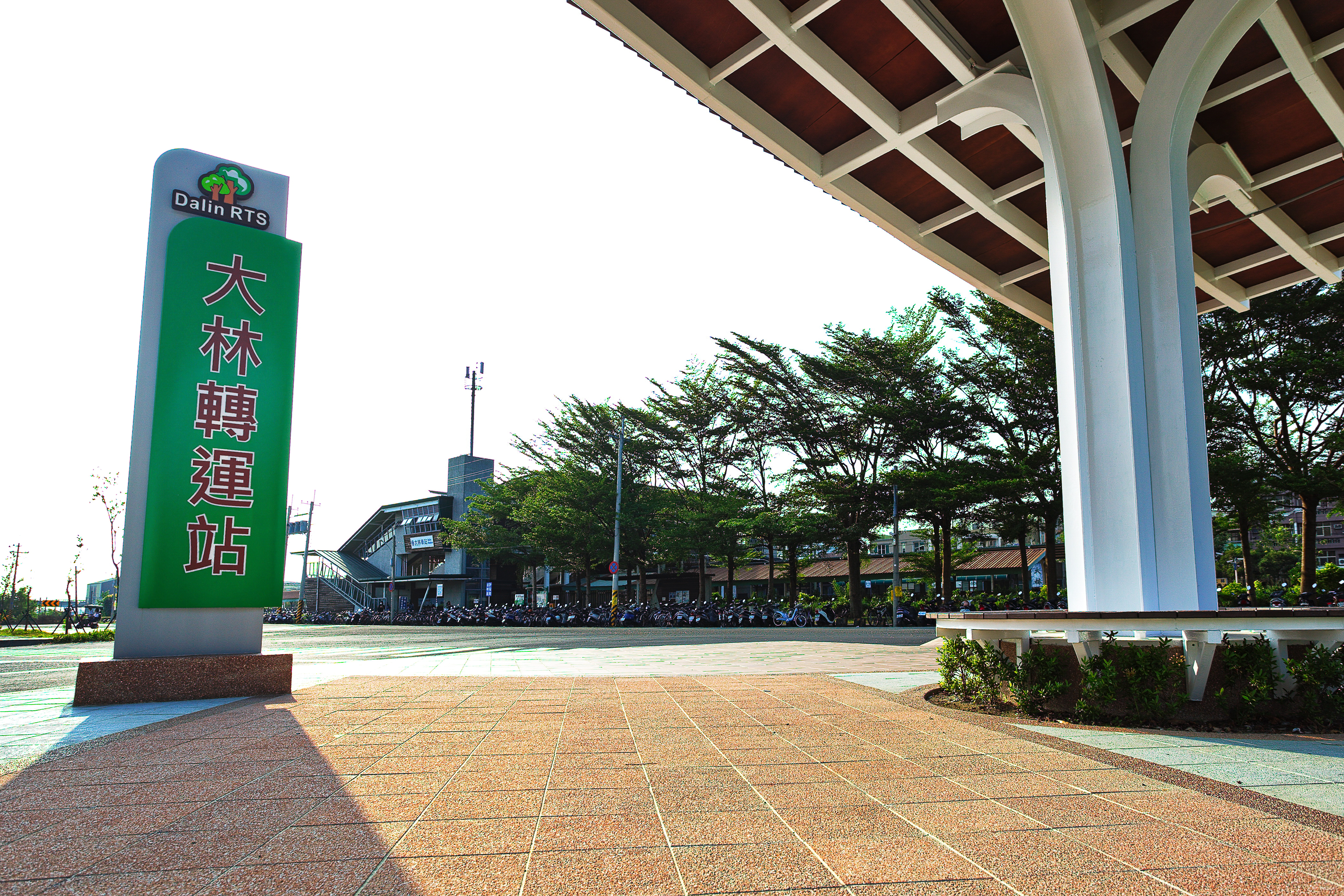 Dalin railway transit station near the Dalin Station, Chiayi, Taiwan.